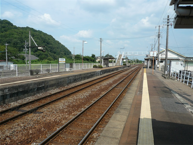 Sakahogi Station platform, viewed towards Mino-Ota